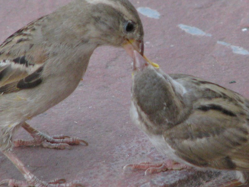 A female House Sparrow feeding a fledgeling